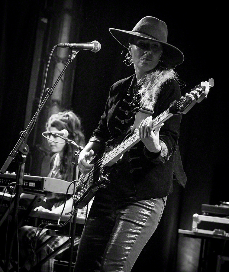 Ida Nielsen at the stage of Nasjonal Jazzscene Victoria. The concert was part of the Oslo Jazz Festival in Norway and took place on 20. August 2016. Lineup:Ida Nielsen (bass)Sofia Hejslet (keyboard)Mika Vandborg (guitar)Yassin Daulne (Disc jockey)Patrick Dorcean (drums)André Martin Hadland (vocal)